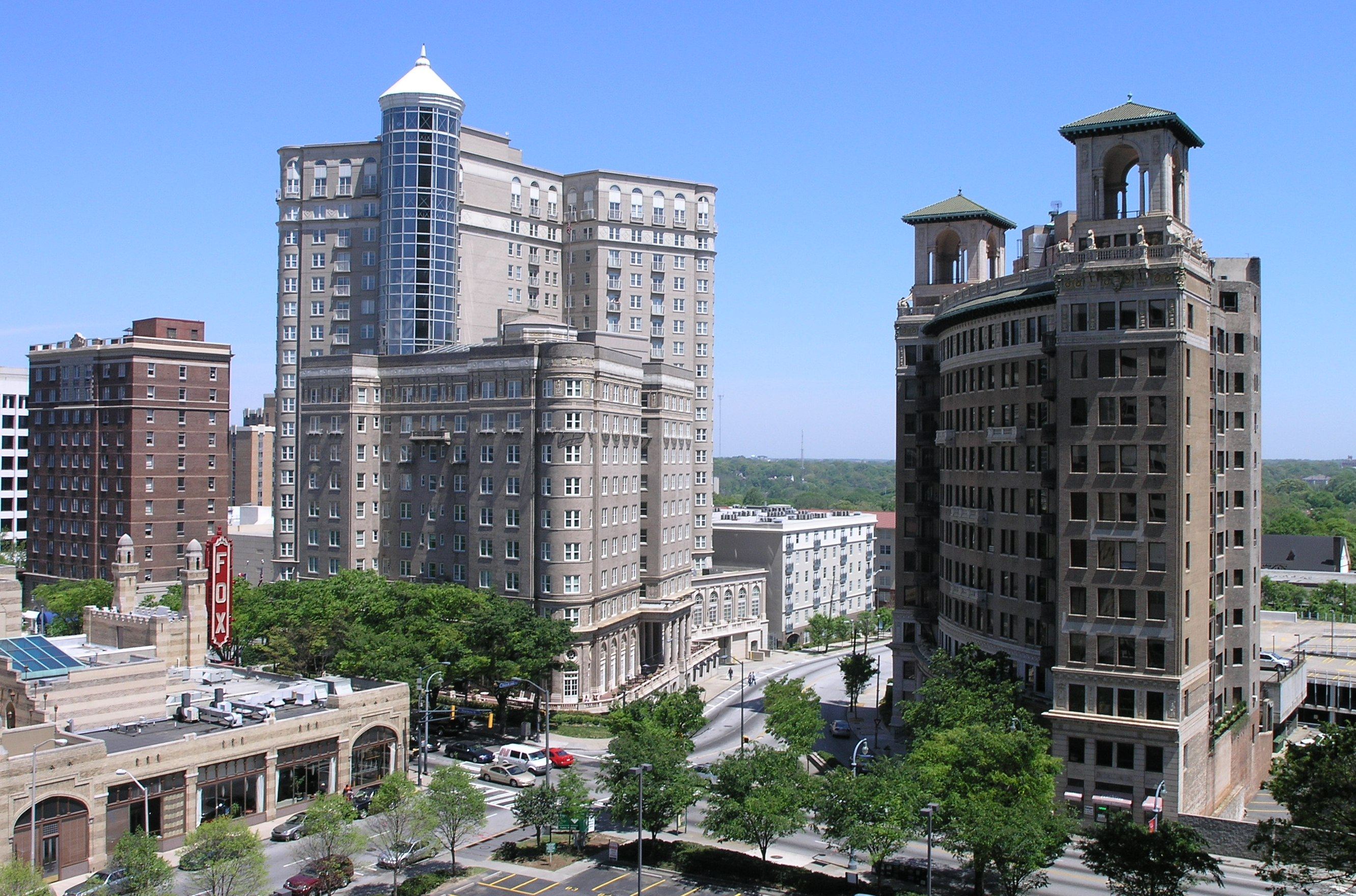 Photo taken in Atlanta area